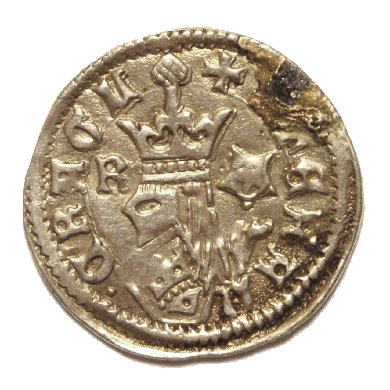 Coin of king Stephen Tomašević of Bosnia